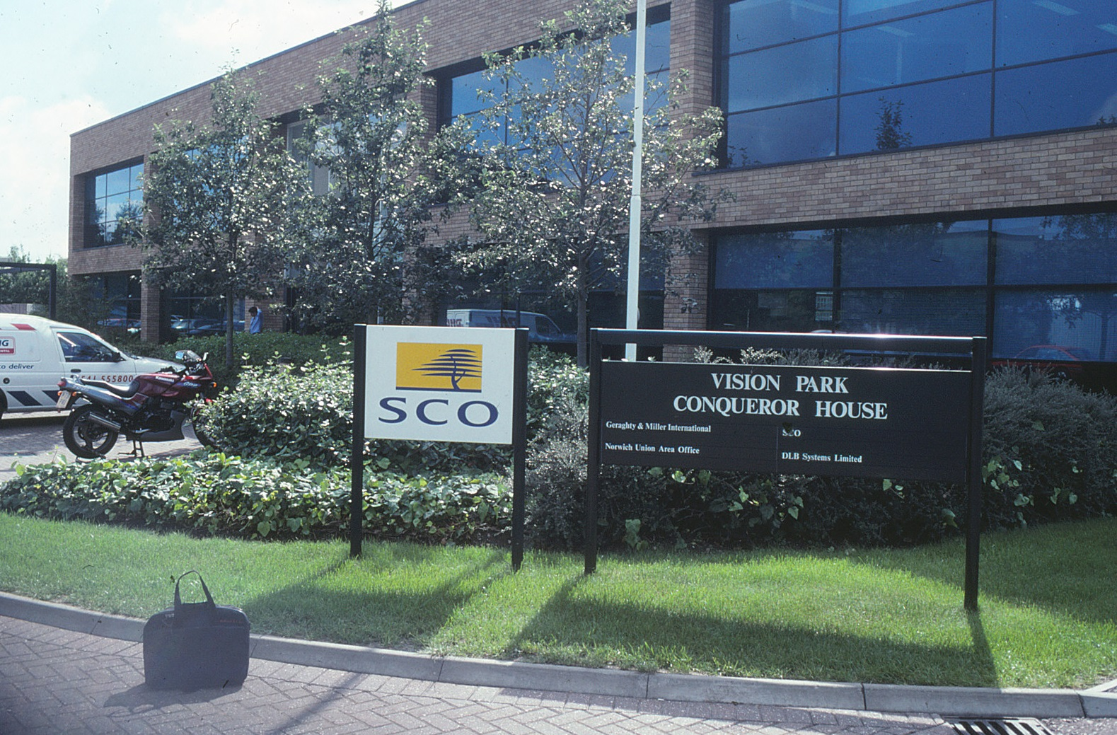 The Santa Cruz Operation's development office for its VisionFS and Tarantella products, located at Conqueror House, Vision Park, Histon, Cambridge, England.